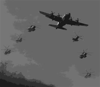 Son Tay Raid - n 1970 U.S. forces attempted to rescue POWs from captivity in North Vietnam. American officials decided a daring operation in the heart of North Vietnam was worth the risk, and President Richard Nixon asked the Pentagon to explore "some unconventional rescue ideas."